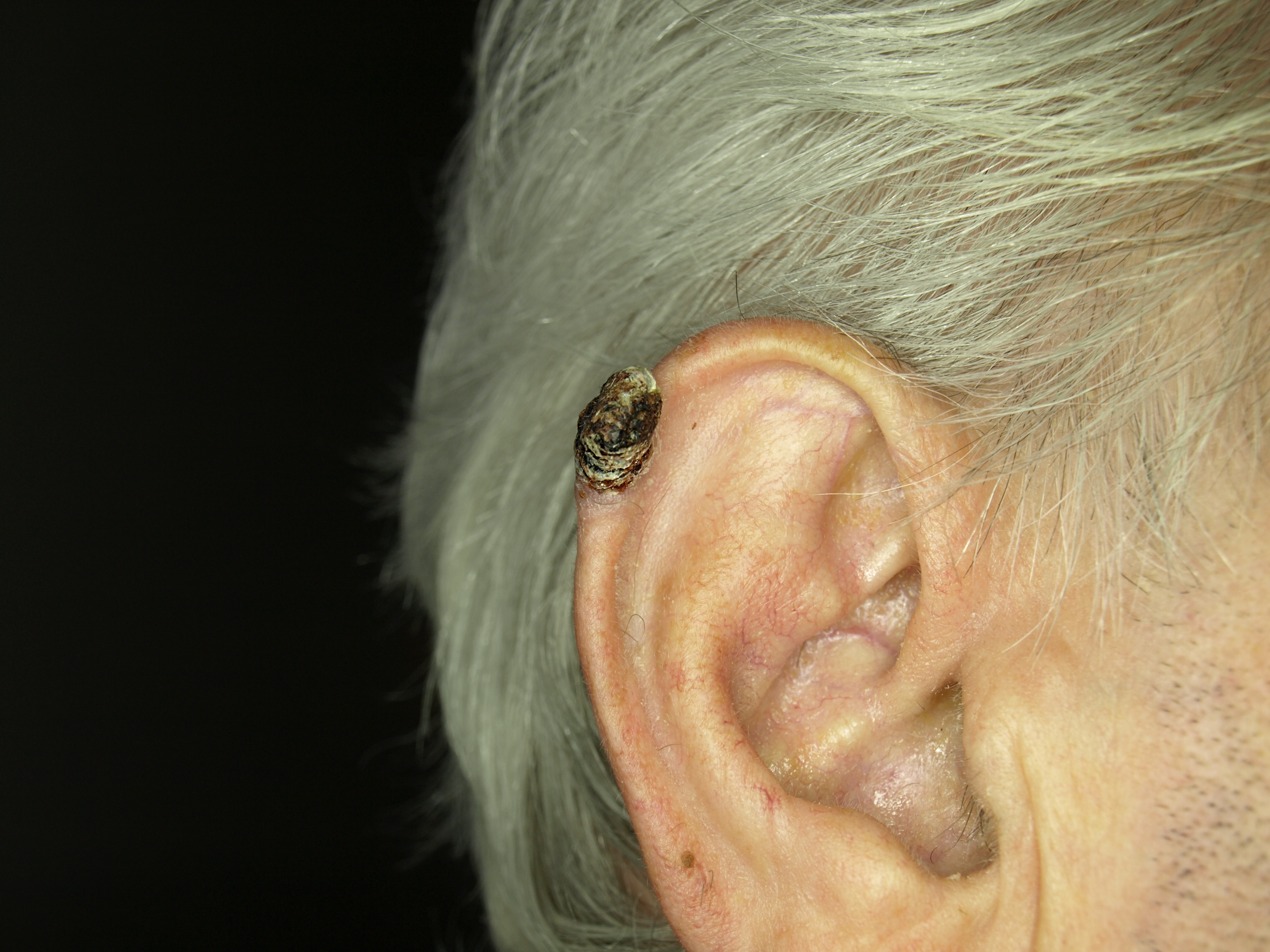 Cornu cutaneum in 69-year-old man. Result of the histological examination: Basal cell carcinoma.